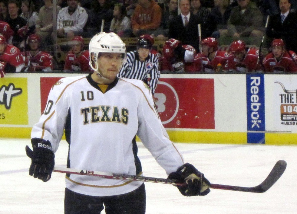 Forward Ryan Garbutt of the Dallas Stars / Texas Stars